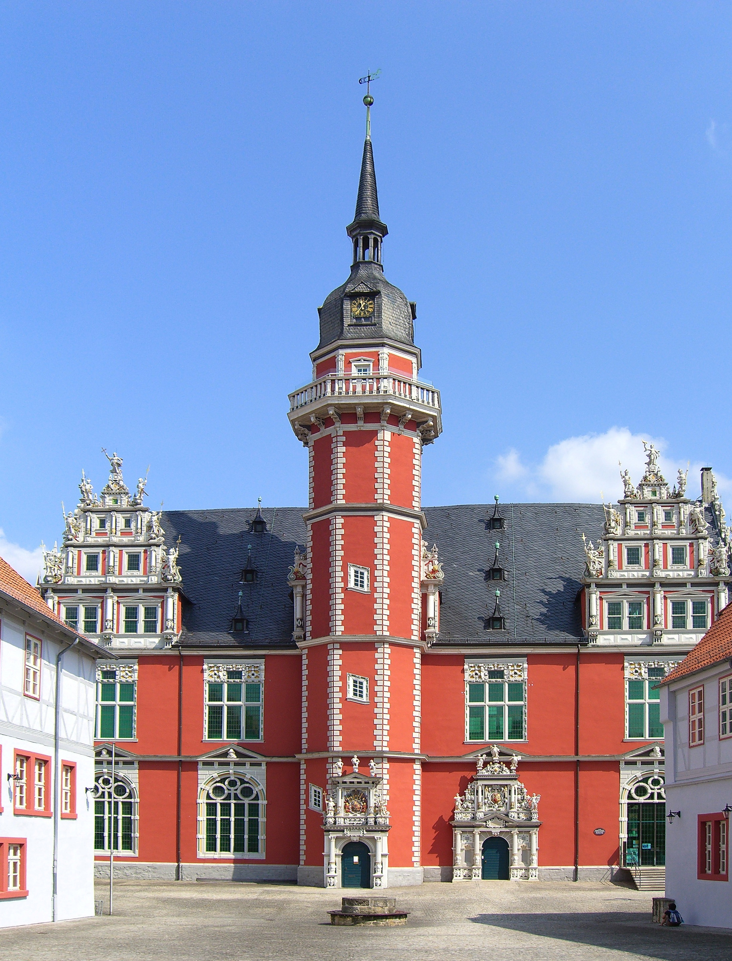 Auditorium building ('Juleum Novum') of the former university of Helmstedt